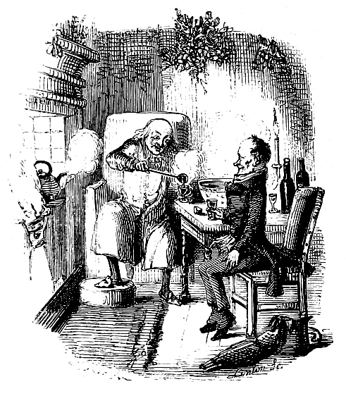 from A Christmas Carol by Charles Dickens